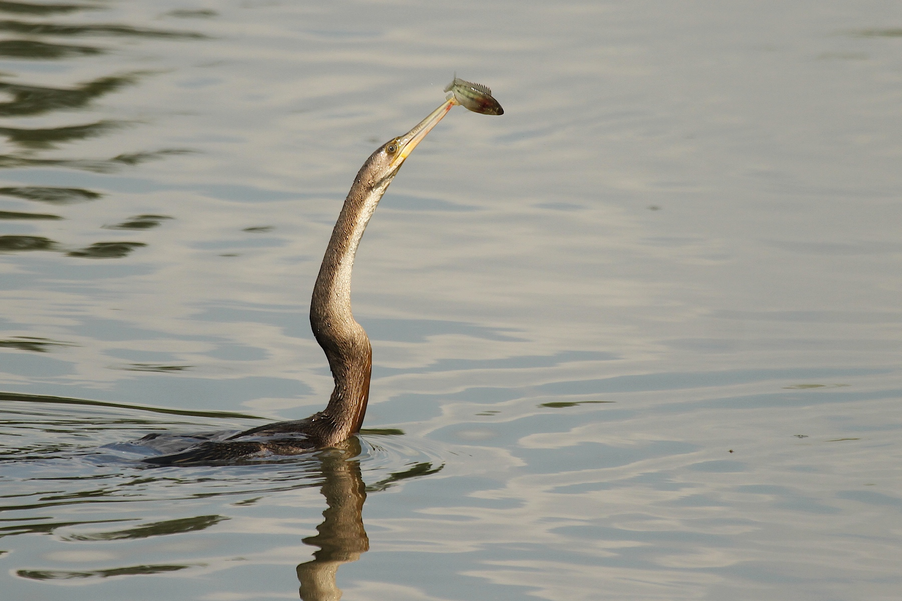 Austin Roberts Bird Sanctuary, New Muckleneuk, Pretoria This media shows a South African Protected Site with SAHRA file reference 9/2/258/0035.